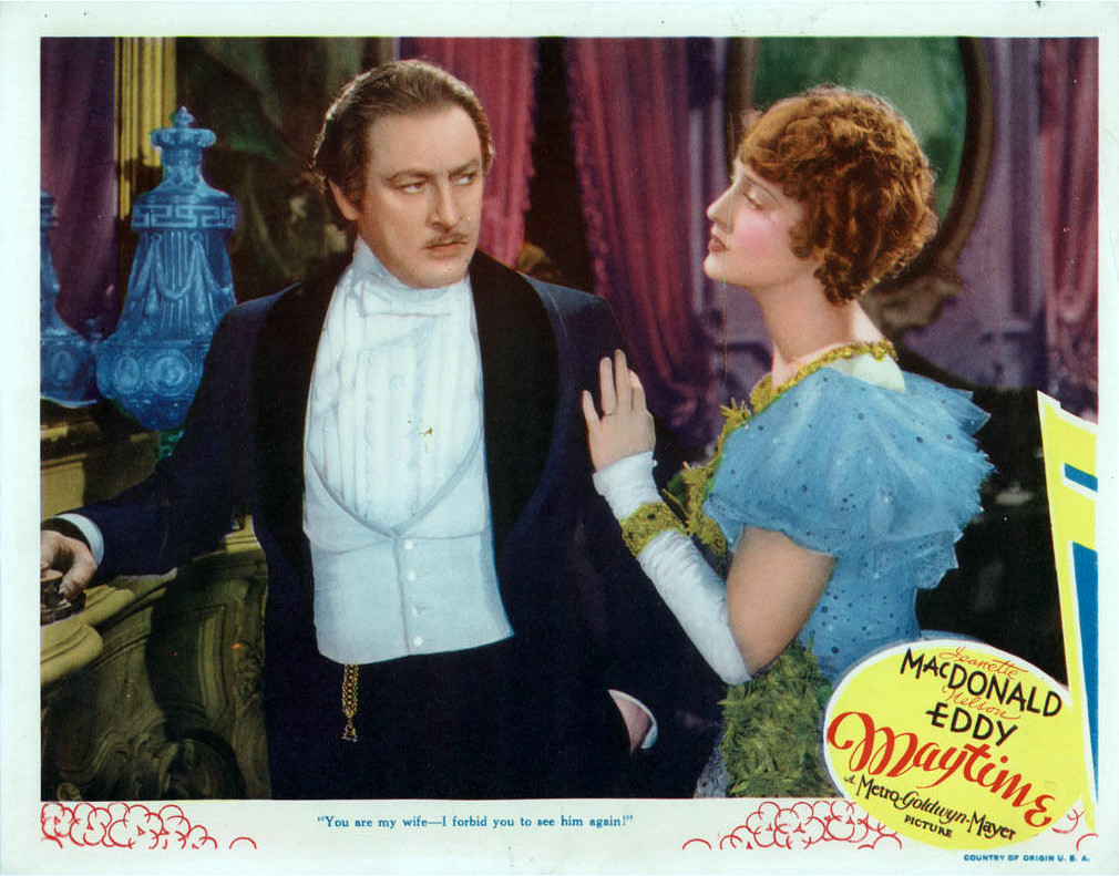 Lobby card for the 1937 film Maytime.